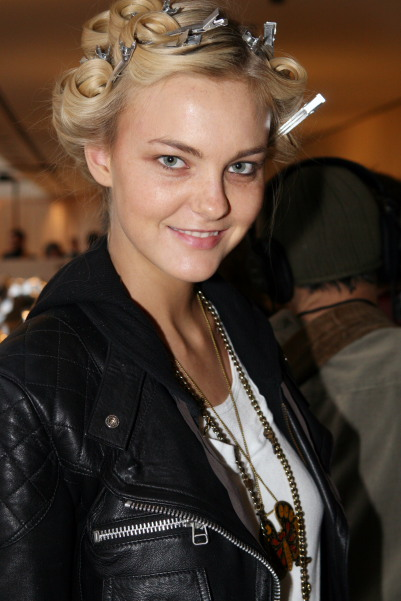 Caroline Trentini backstage at Tommy Hilfiger